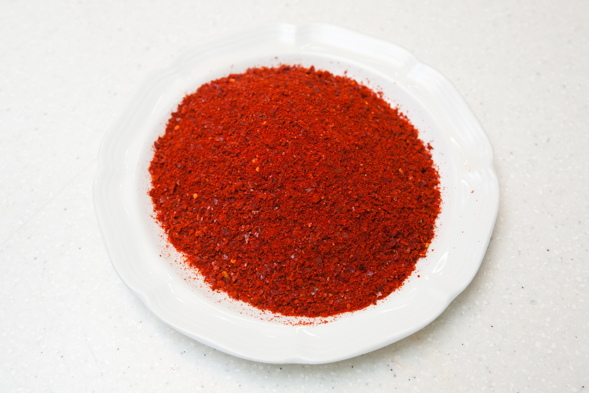 Gochutgaru (chilli powder)